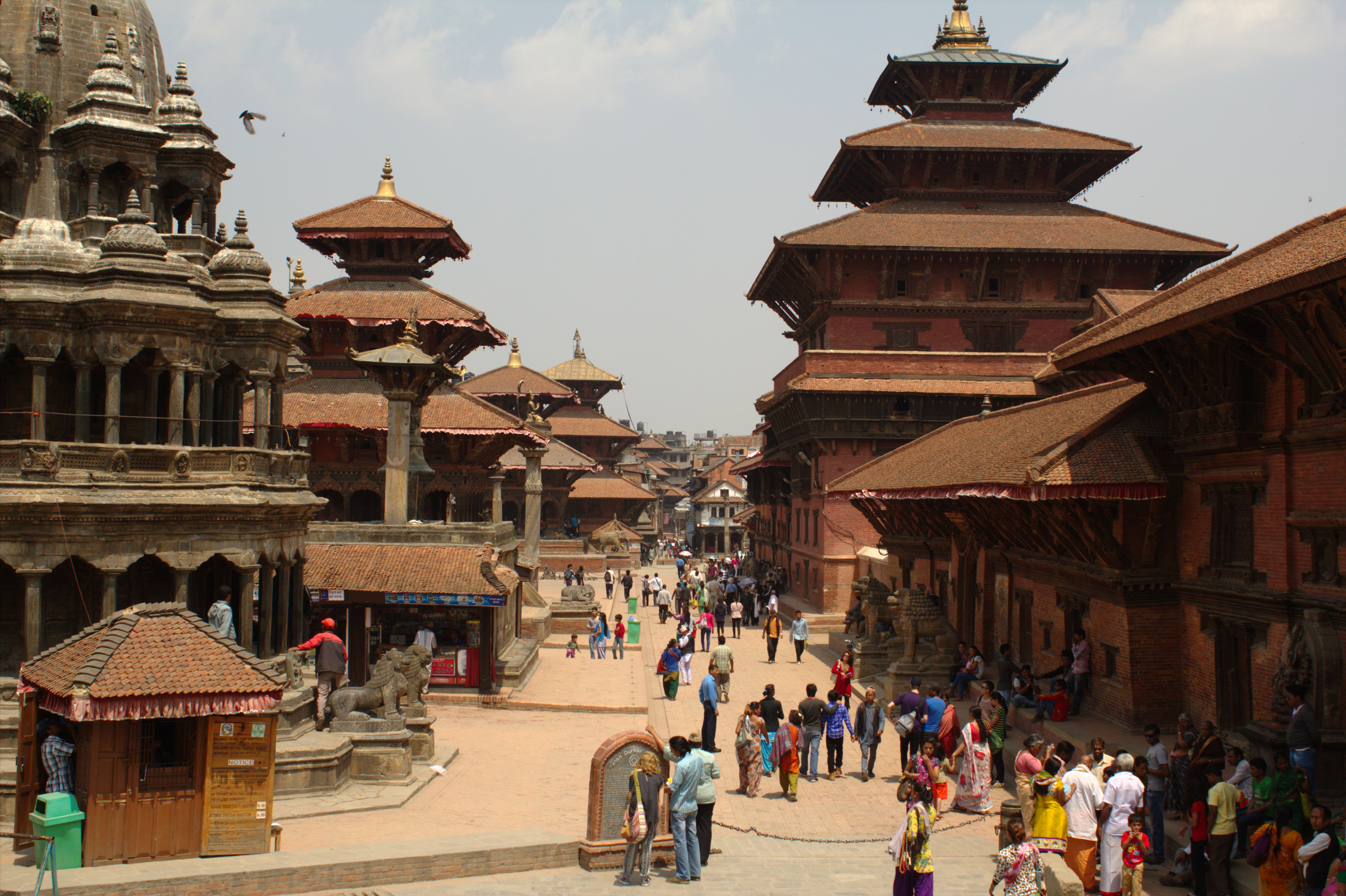 This picture shows Durbar Square in Patan (Lalitpur). Left side you can see from the front backwards the octagonal stone Krishna Temple, the three-storey Hari Shankar Temple (between these is the large Taleju Bell), the elaborately decorated Vishwanath Temple and at the end the Bhimsen Temple. On the right extends Sundari Chowk (with a stone Ganesha in front), Mul Chowk an the Degutaleju Temple.